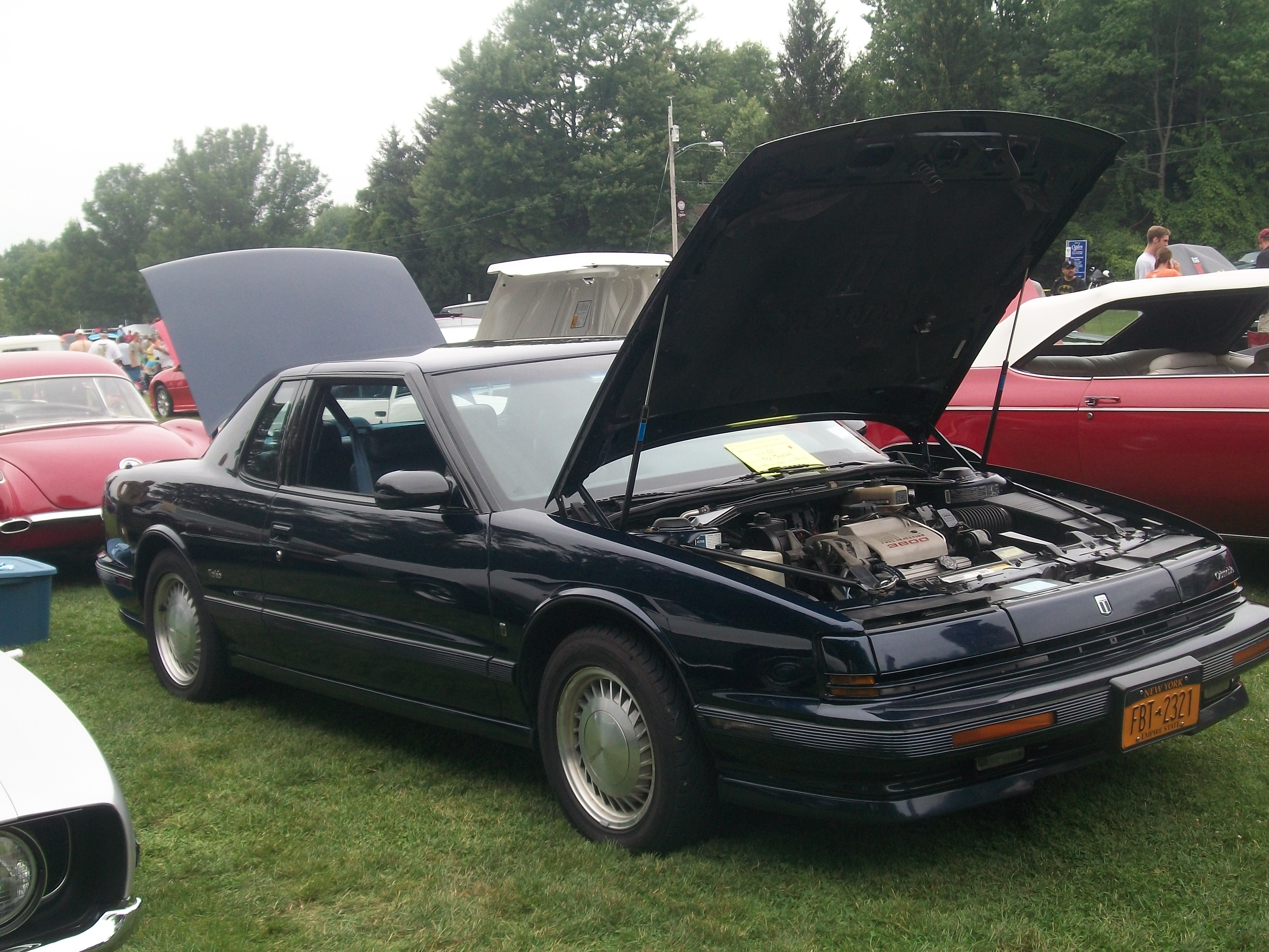 The Trofeo version of the Toronado.